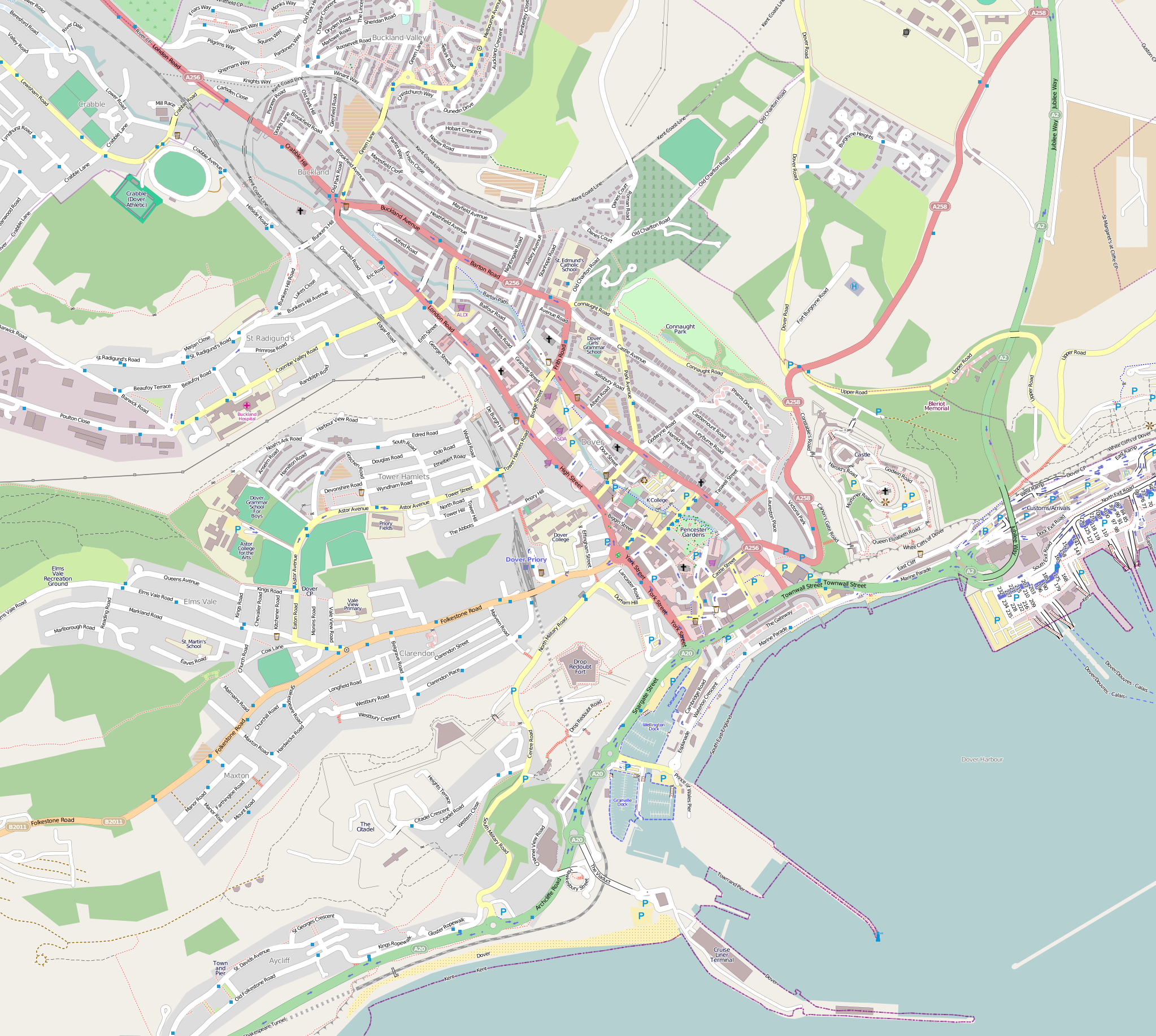 Map of Dover Central Geographic limits: N: 51.1442° S: 51.1109° W: 1.278° E: 1.3372°